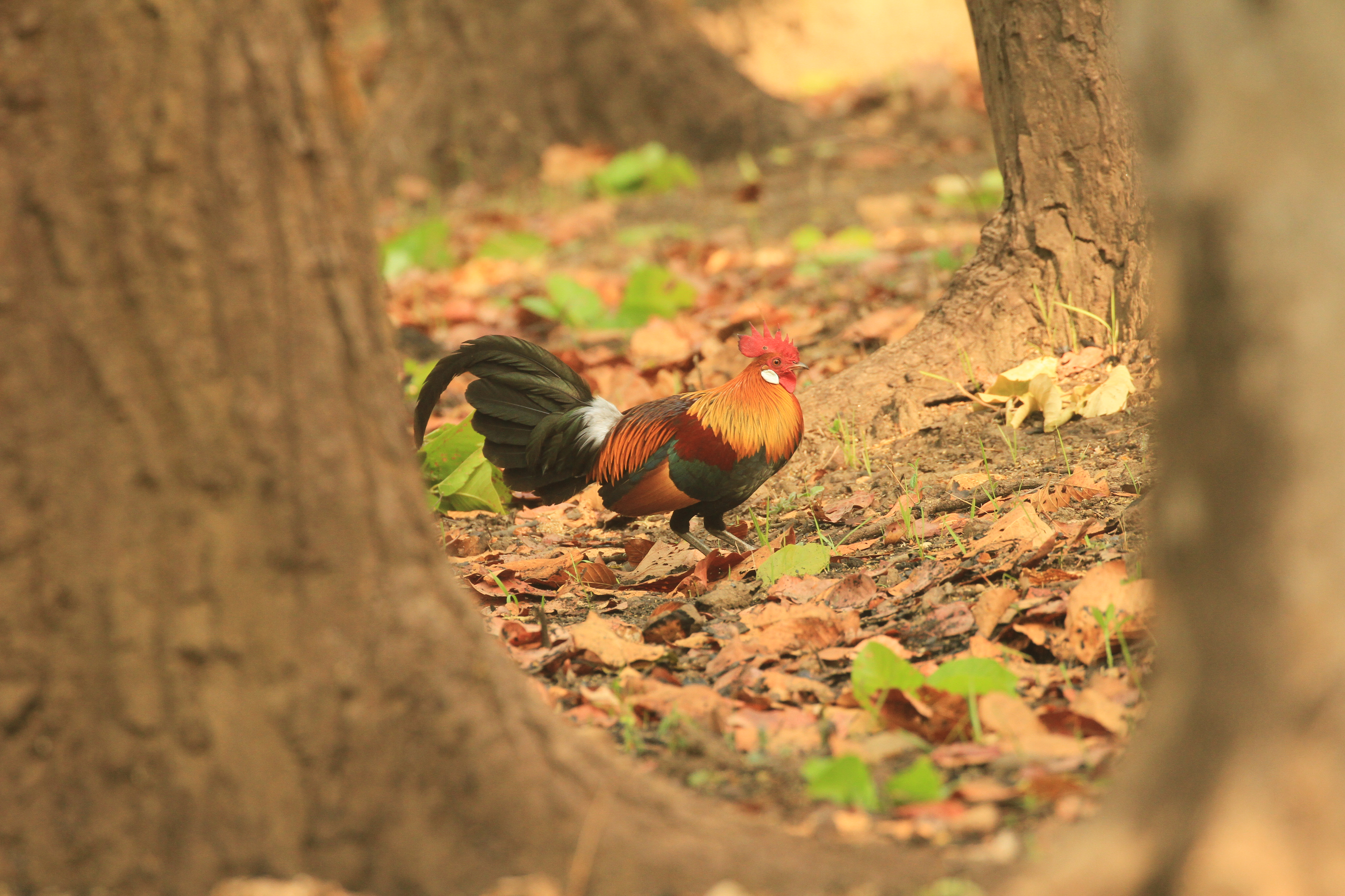 David V Rajus Photos